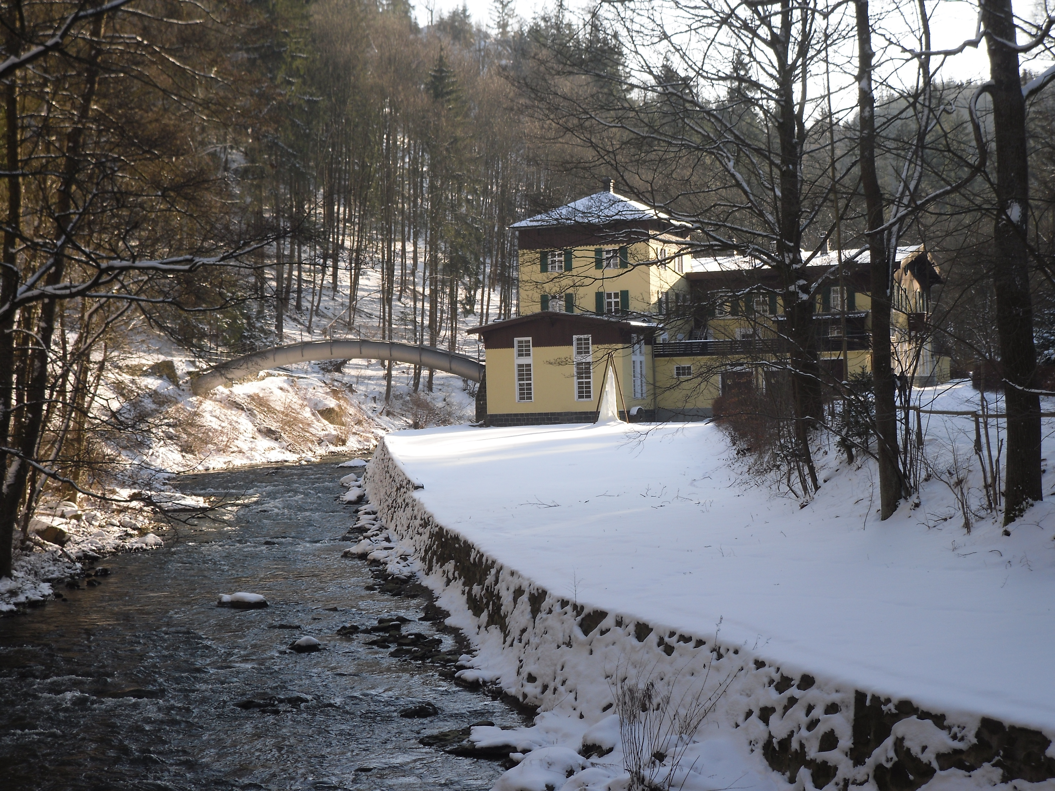 Hoellental Water Power Plant, Upper Franconia, Germany